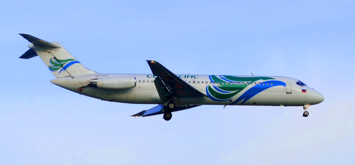 Domestic carriers use the DC-9 for local air transpo. got this pic when one was landing in mactan cebu